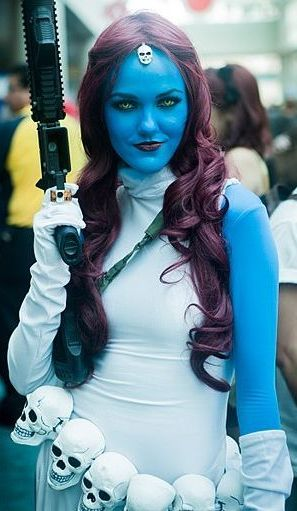 San Diego Comic Con 2014-1440